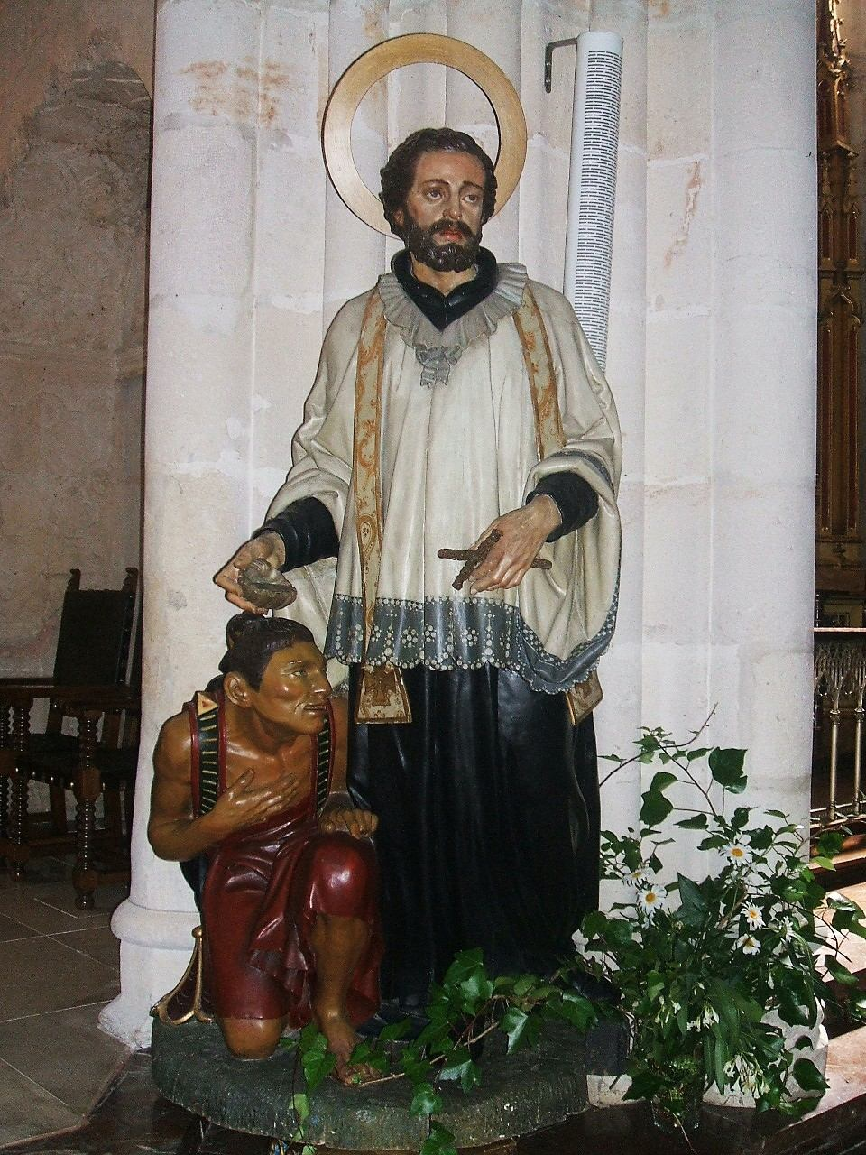 San Francisco Javier bautizando a indio, en la iglesia de La Merced de Burgos, España